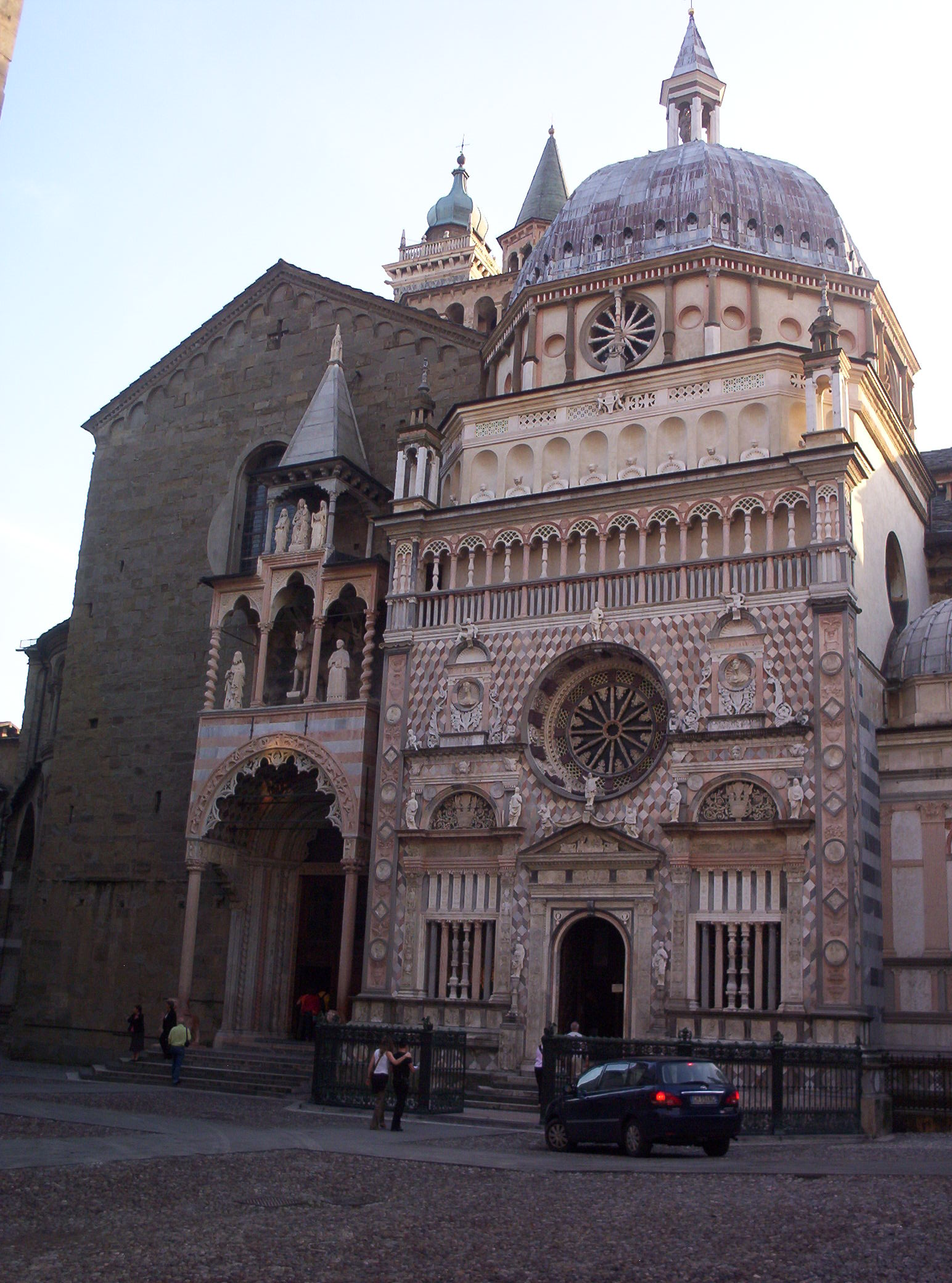 Capella Coleoni, outside view from Piazza Vechia side with back entrance in Santa Maria Maggiore. Created by Connor Russell, August 2006.